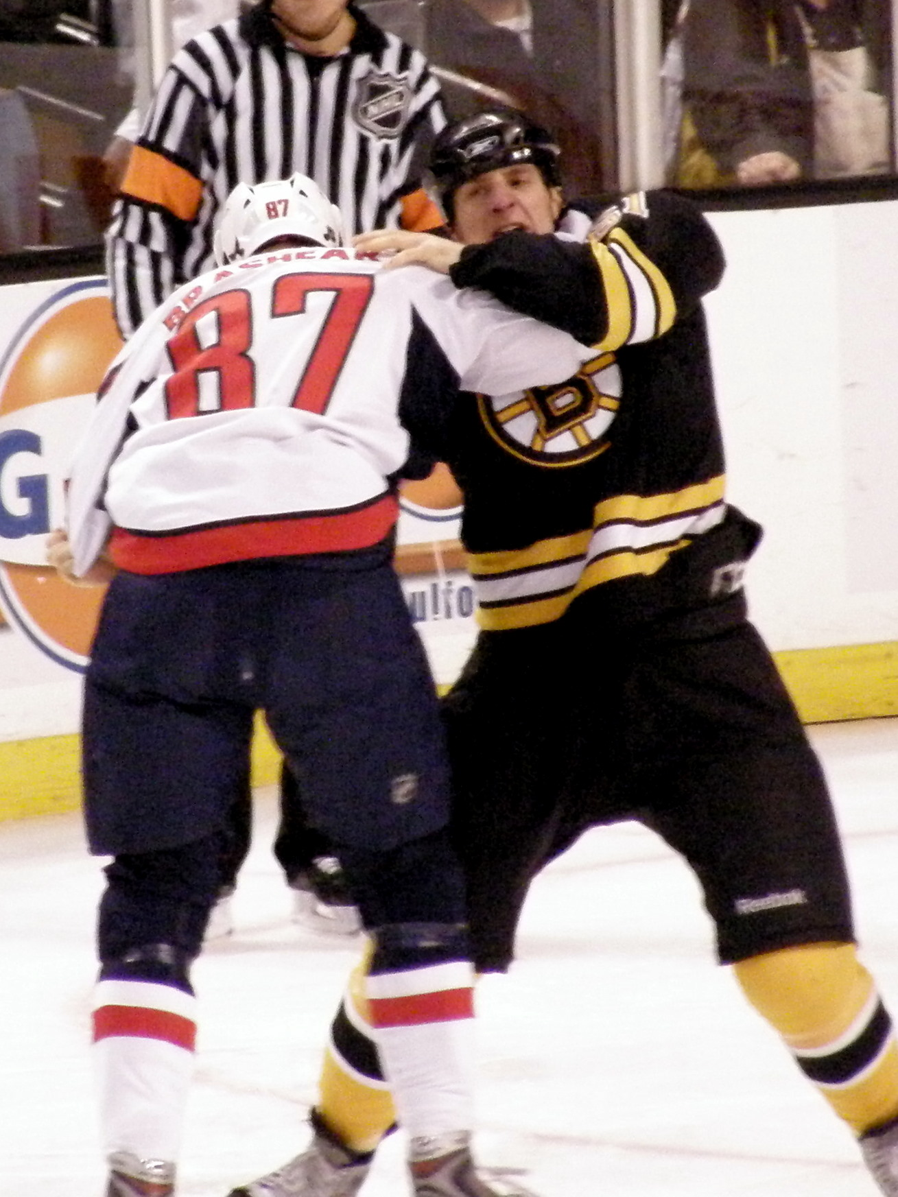 87 Donald Brashear and #61 Byron Bitz fighting during a game between the Washington Capitals and Boston Bruins on January 27, 2009.